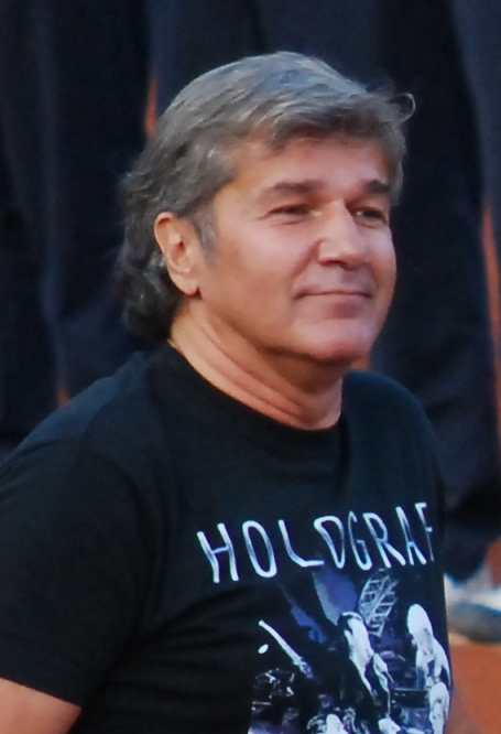 Cropped version of File:RO B Pavel retirement 2.jpg